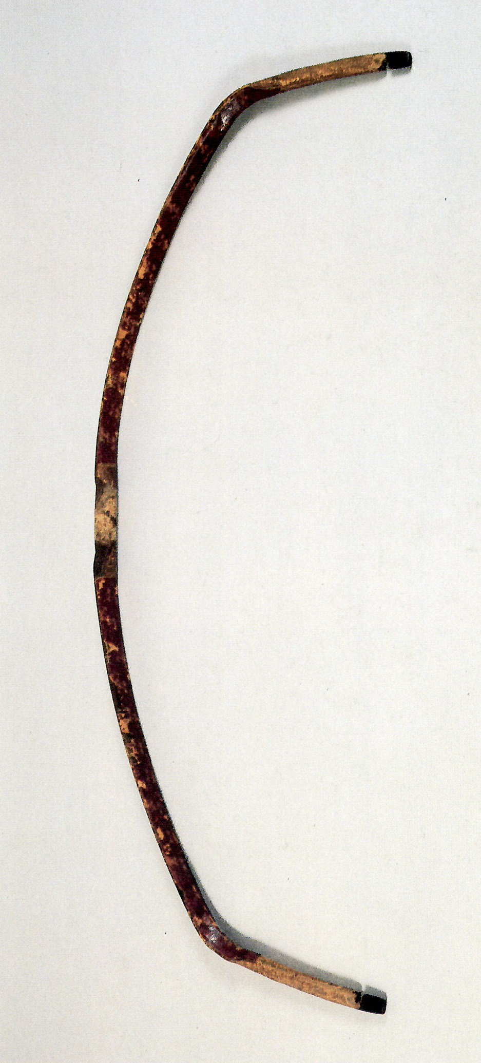 The bow of a Mongolian army